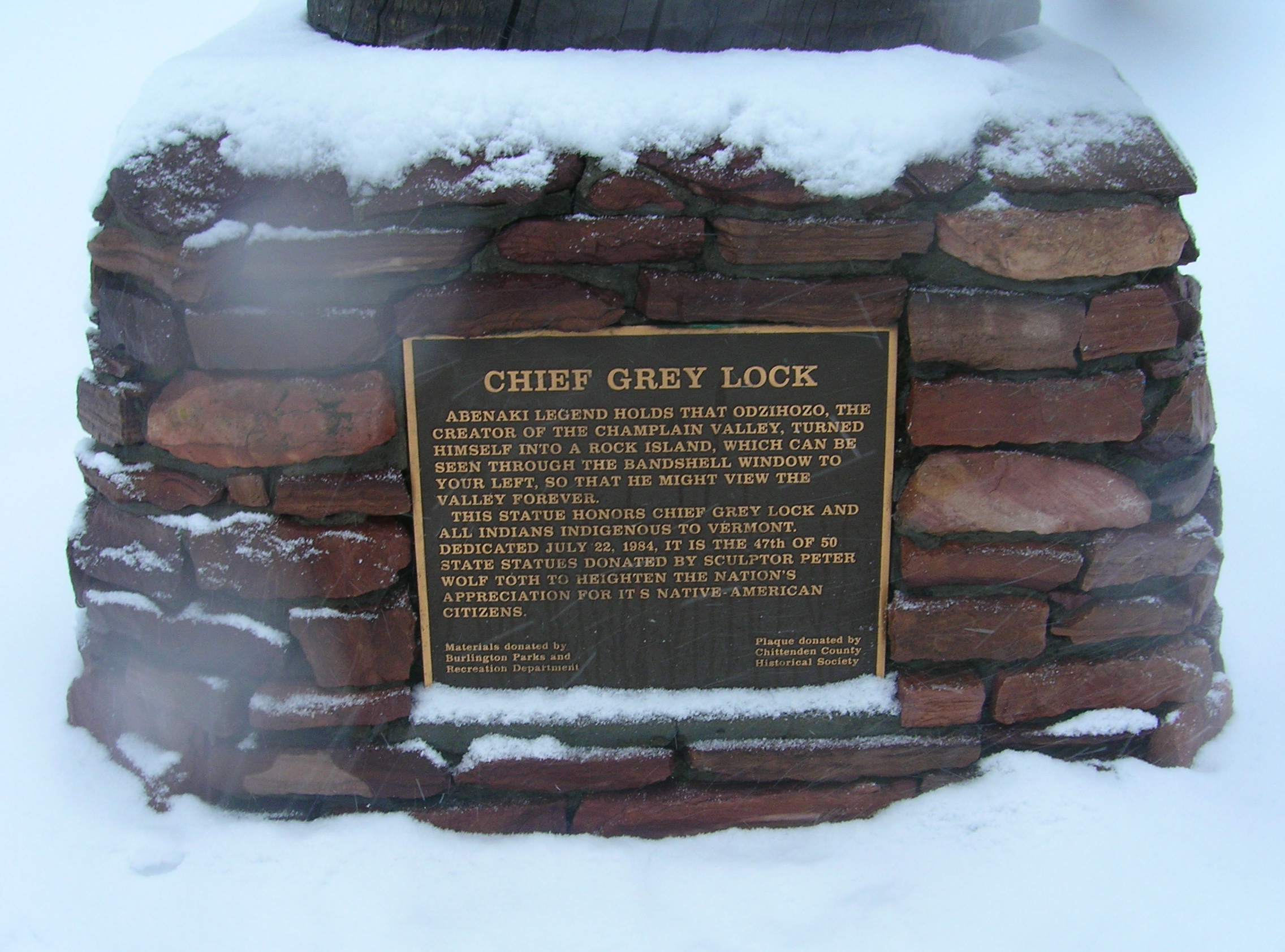 Tablet signage at the base of the standing sculpture of Chief Grey Lock, located in Battery Park, Burlington, Vermont. Dedicated in 1984 to all Native Americans indigenous to Vermont.